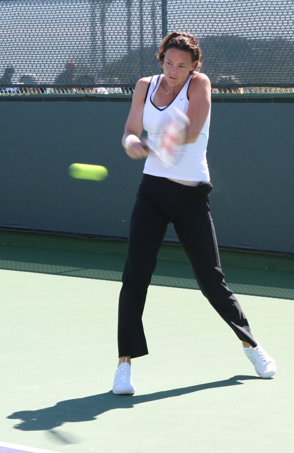 Lindsay Davenport practicing in Indian Wells, California, USA, on Sunday March 12, 2006.